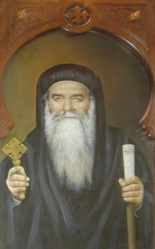 Pope Cyril VI of Alexandria, 116th Pope of Alexandria & Patriarch of the See of St. Mark